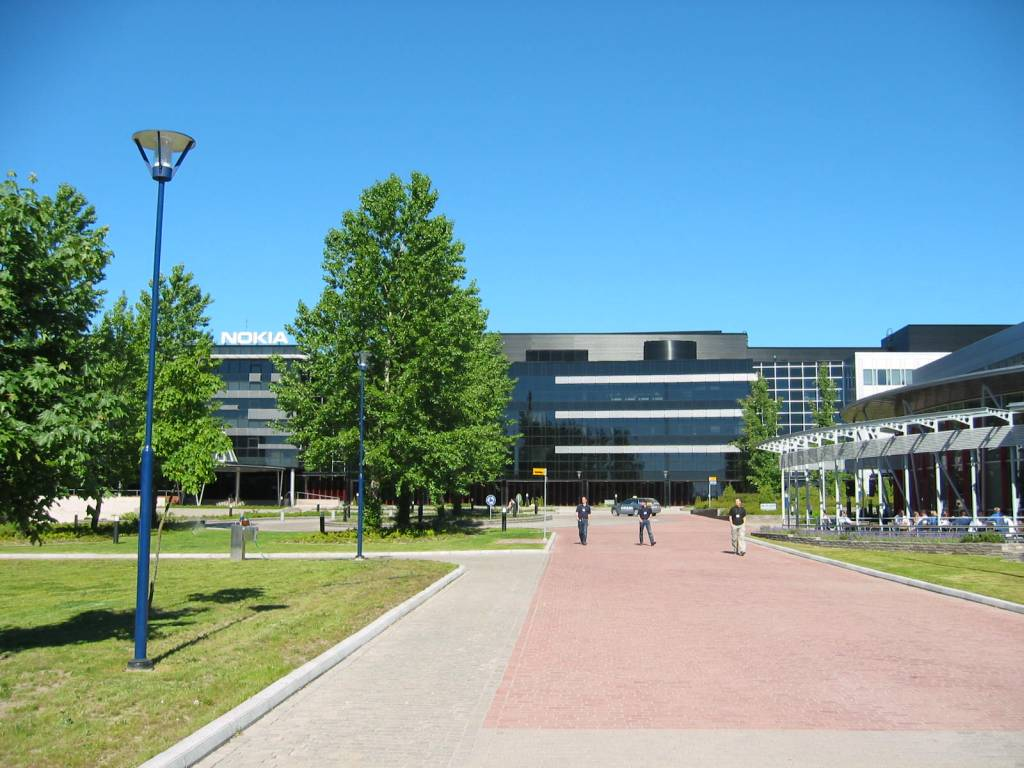 View of the Nokia corporate builging, Salo, Finland